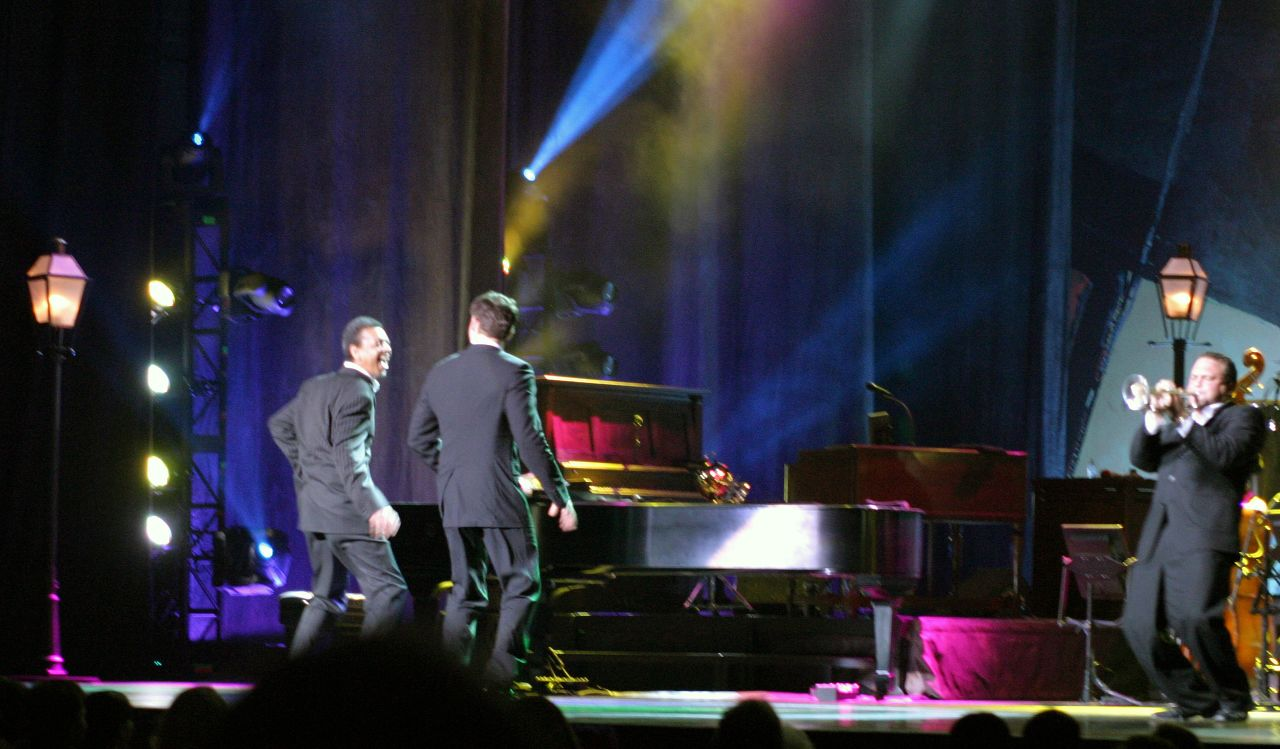 Harry Connick Jr at the Johnny Mercer Theather, Savannah, Georgia Feb 27, 2007. The picture shows Lucien Barbarin and Harry Connick Jr to the left, and Mark Braud to the right. (Grand piano: Steinway & Sons).